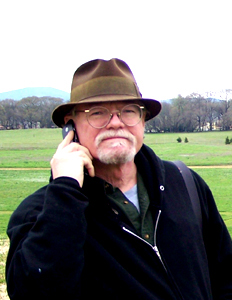 Louisiana muralist Robert Dafford